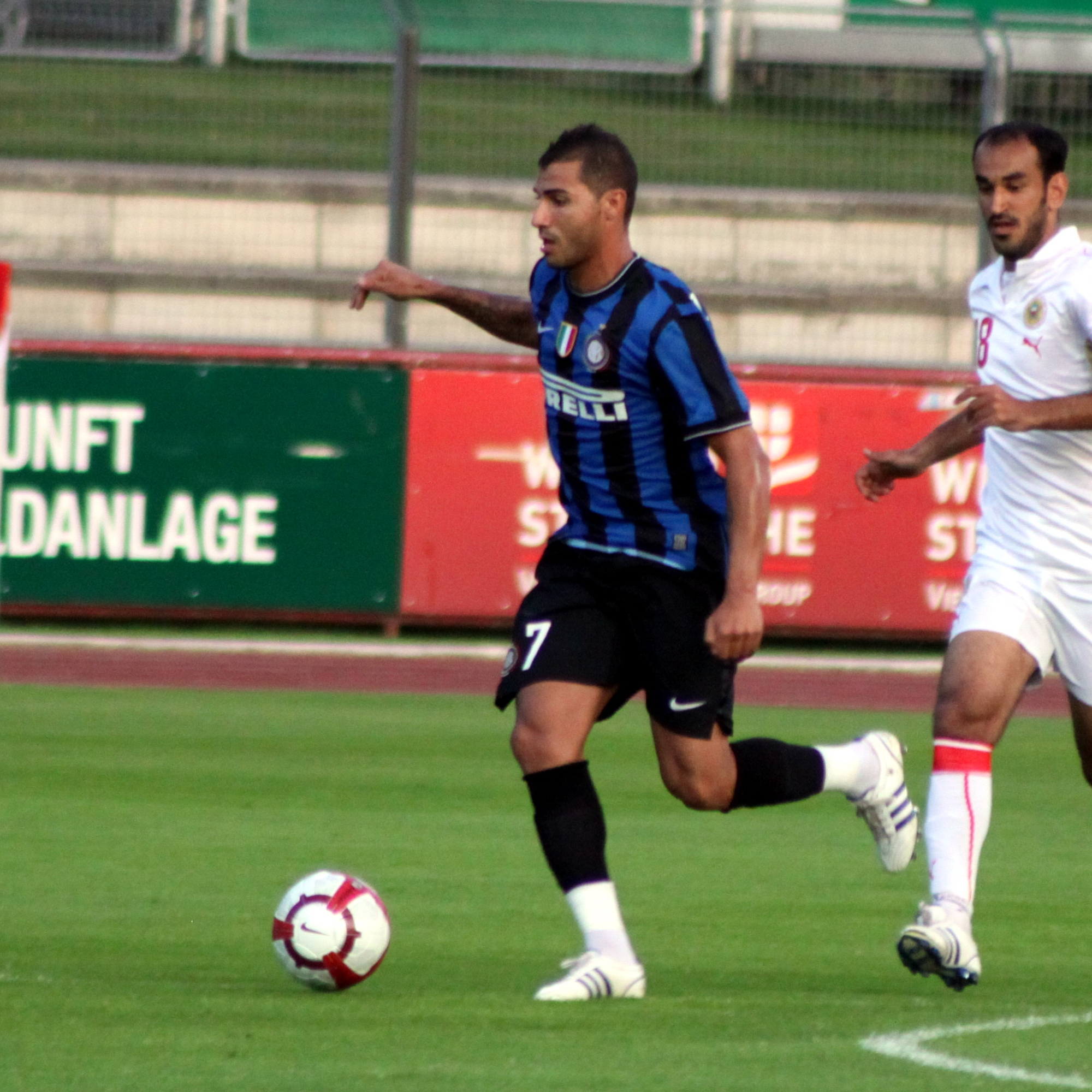 Ricardo Quaresma - F.C. Internazionale Milano